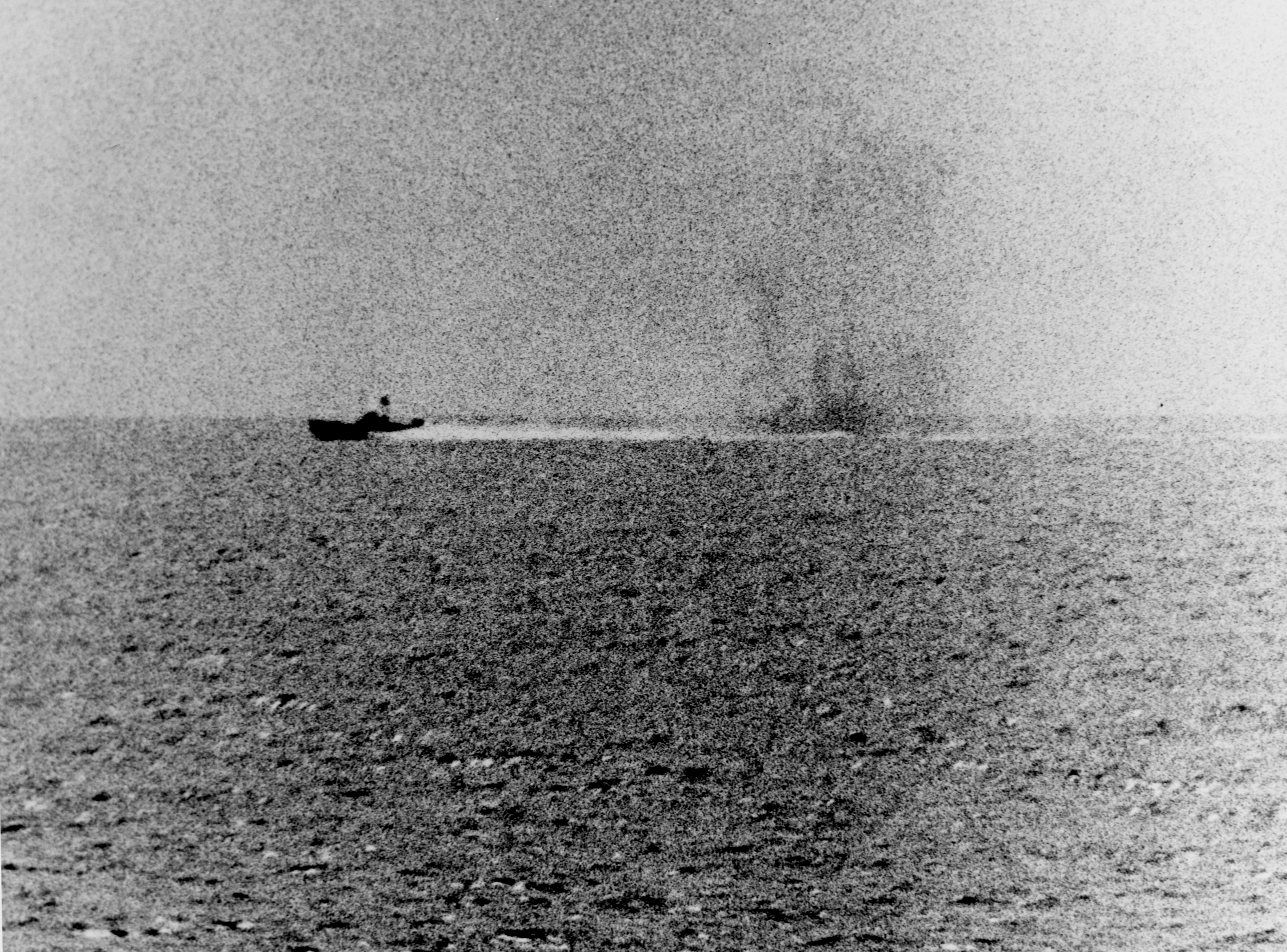 Photograph taken from the U.S. Navy destroyer USS Maddox (DD-731) during her engagement with three North Vietnamese motor torpedo boats in the Gulf of Tonkin, 2 August 1964. The view shows one of the boats racing by, with what appears to be smoke from Maddox' shells in its wake.